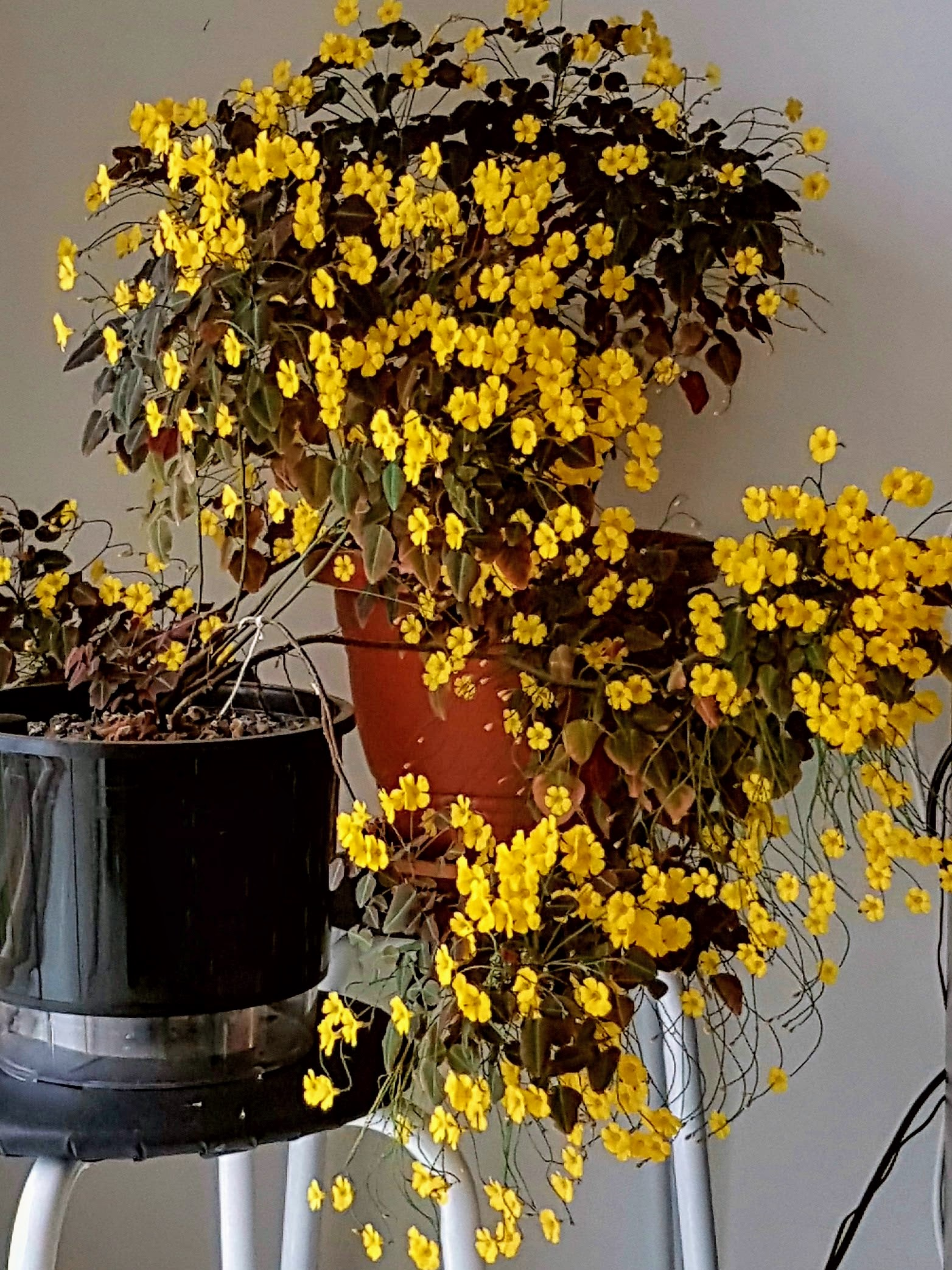 Oxalis hedysaroides is plant also known as fire fern, it is a bush like plant with reddish leaves and bright yellow little flowers.